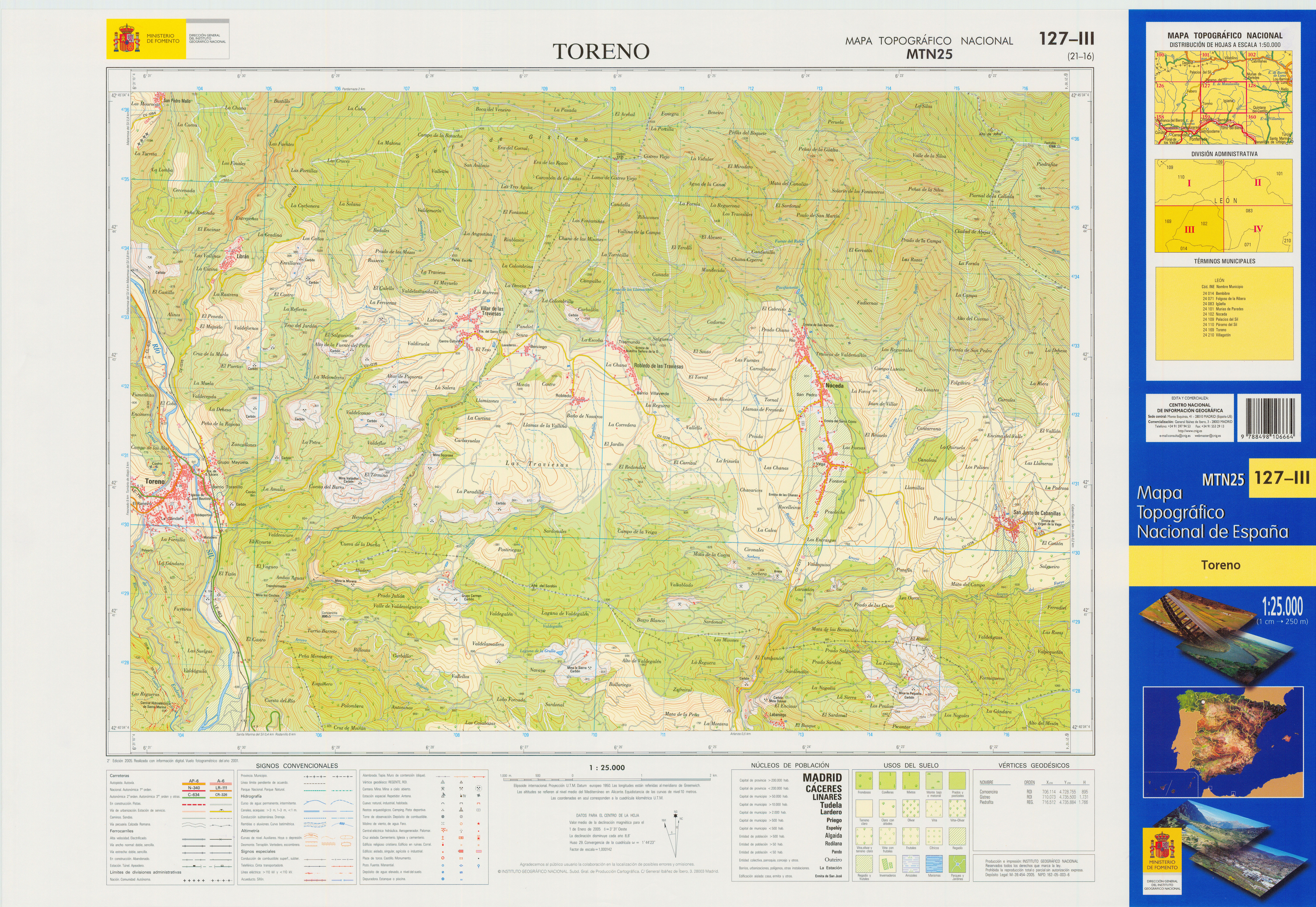 Fragment 0127c3 of the National Topographic Map of Spain in 2005 at a scale of 1:25000 printed and scanned with a resolution of 250 ppi. It shows Toreno.